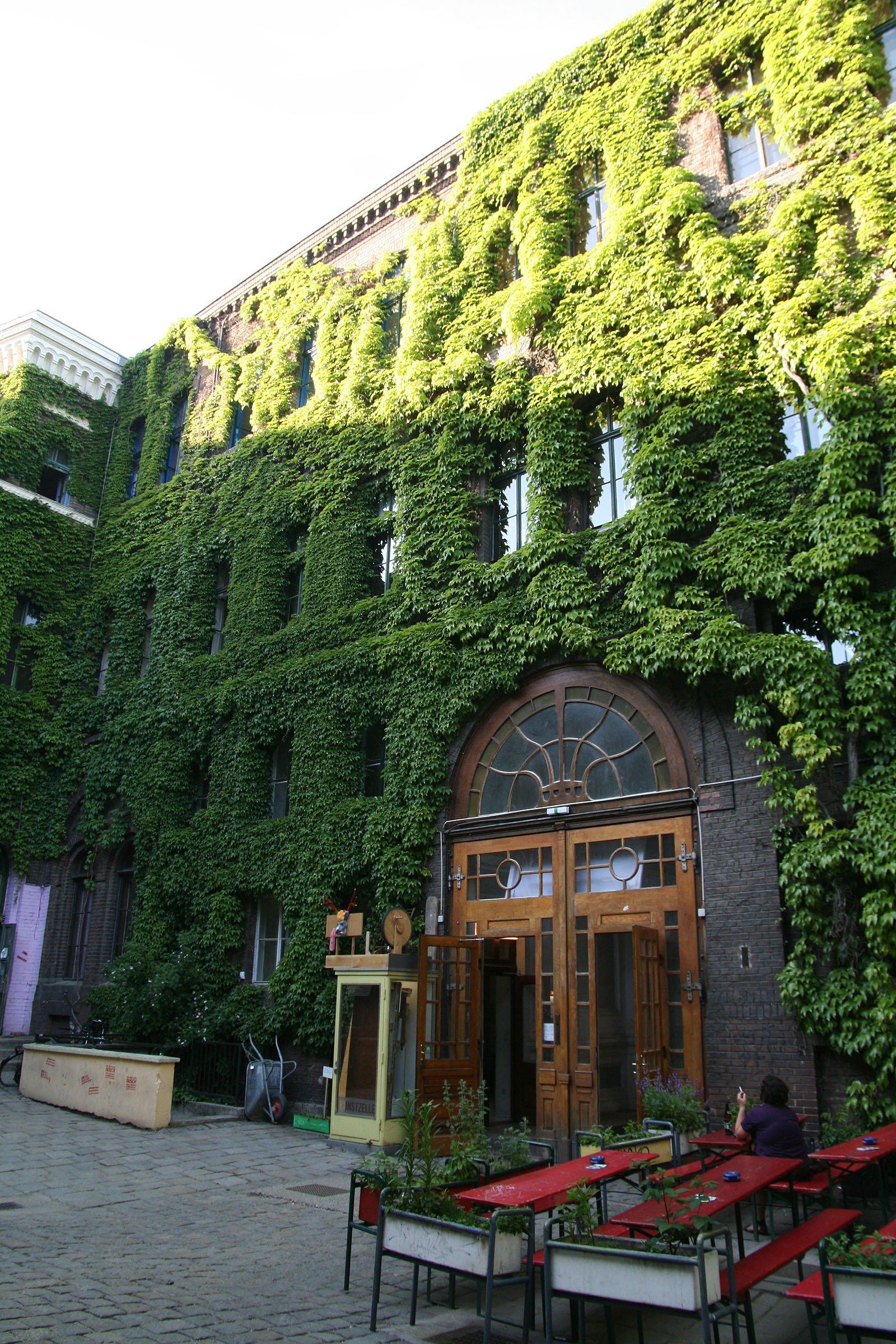 Inside the cultural center WUK in Vienna.